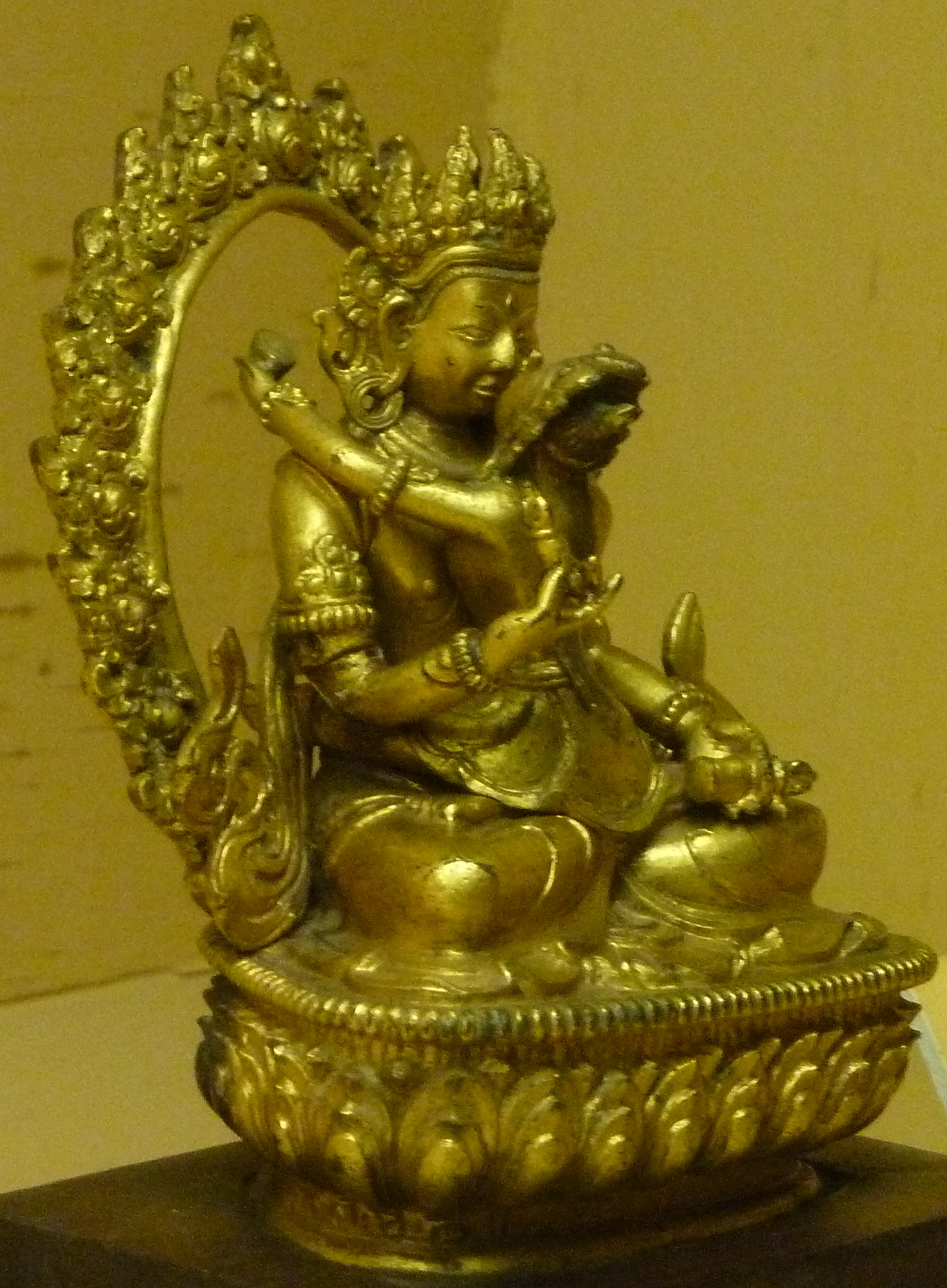 Correct term: Yab-Yum, which represents the primordial union of wisdom and compassion. The male figure is usually linked to karuṇā, compassion, and upaya, skillful means, while the female partner relates to prajñā, insight. Padmasambhava was renowned as a tantric exorcist. He was invited to tibet by king Thisong Detsen(766-797A.D.) to tame the demons obstructing the path of Buddhism. This yab-yum figure is Vajrasattva in union with his consort, an important visualization deity (yidam). The statue is currently in the former Prince of Wales Museum, now Chhatrapati Shivaji Maharaj Vastu Sangrahalaya, Mumbai